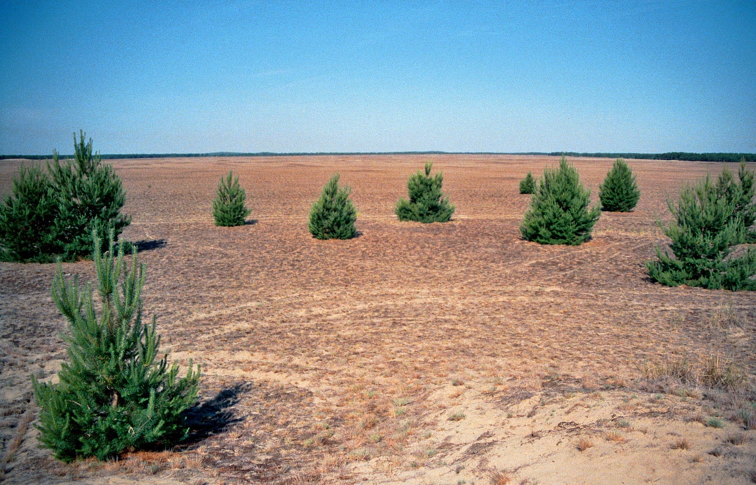 Lieberose Desert (Lieberoser Wüste) in the Lieberoser Heide near Lieberose, Landkreis Dahme-Spreewald, Brandenburg, Germany. It is Germany's largest desert. (Photo taken on a guided tour.)